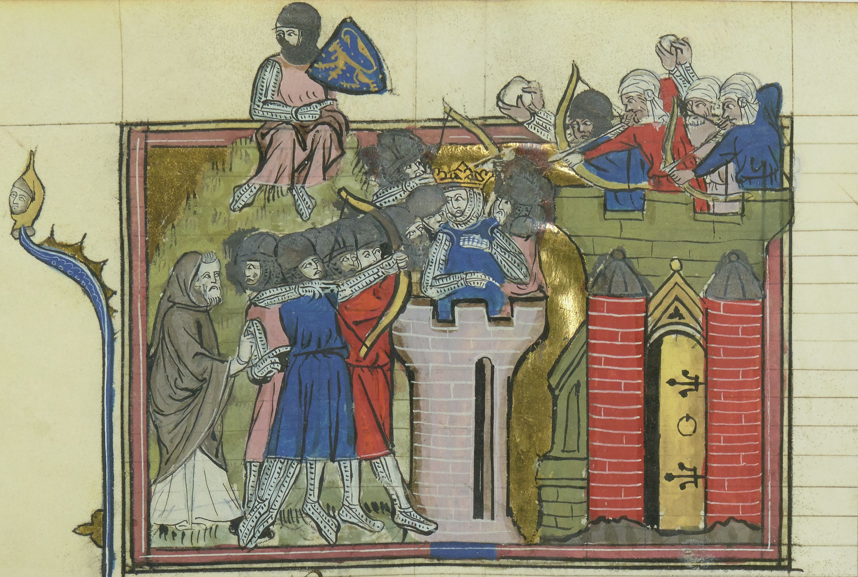 Godfrey in his siege tower at the Assault on Jerusalem, July 15, 1099